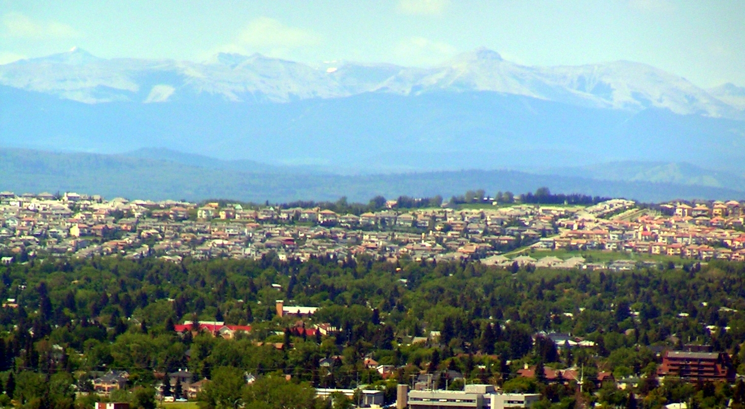 Neighbourhood of Signal Hill in Calgary, Alberta, Canada, Canadian Rockies in the background